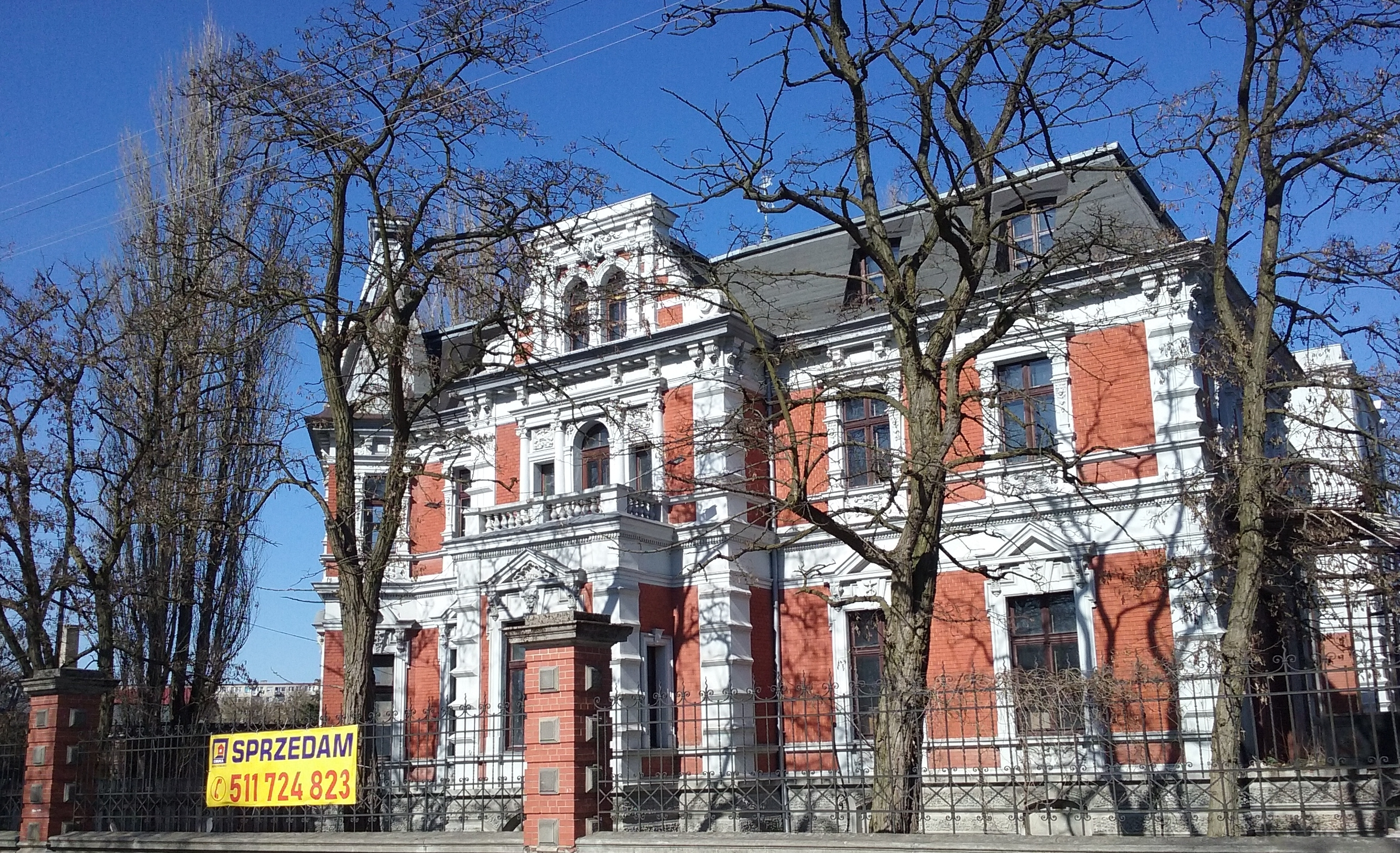 Barlickiego Street 34, Tomaszow Mazowiecki, Lodz Voivodeship.